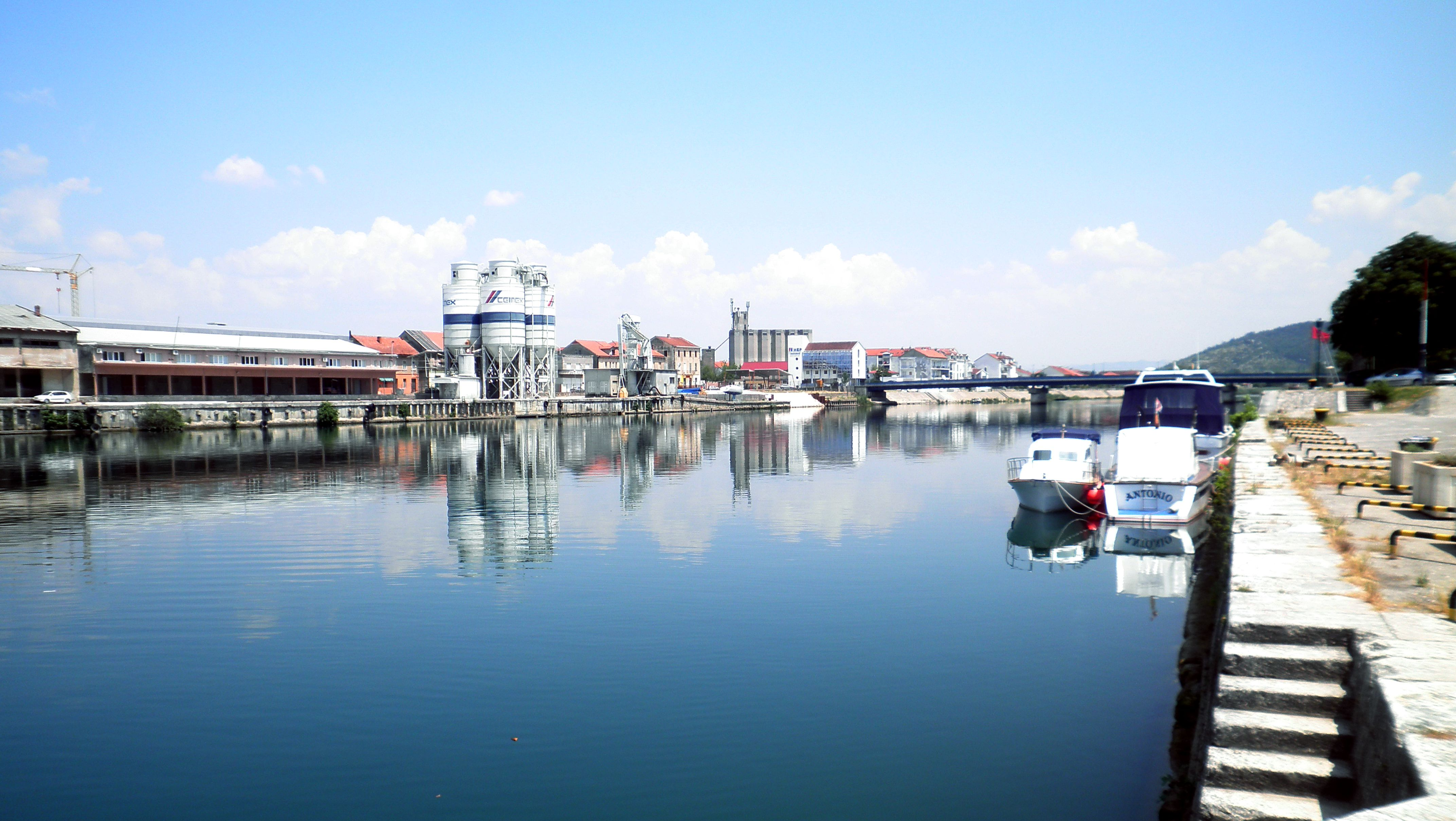 The Neretva river and part of harbour in Metković